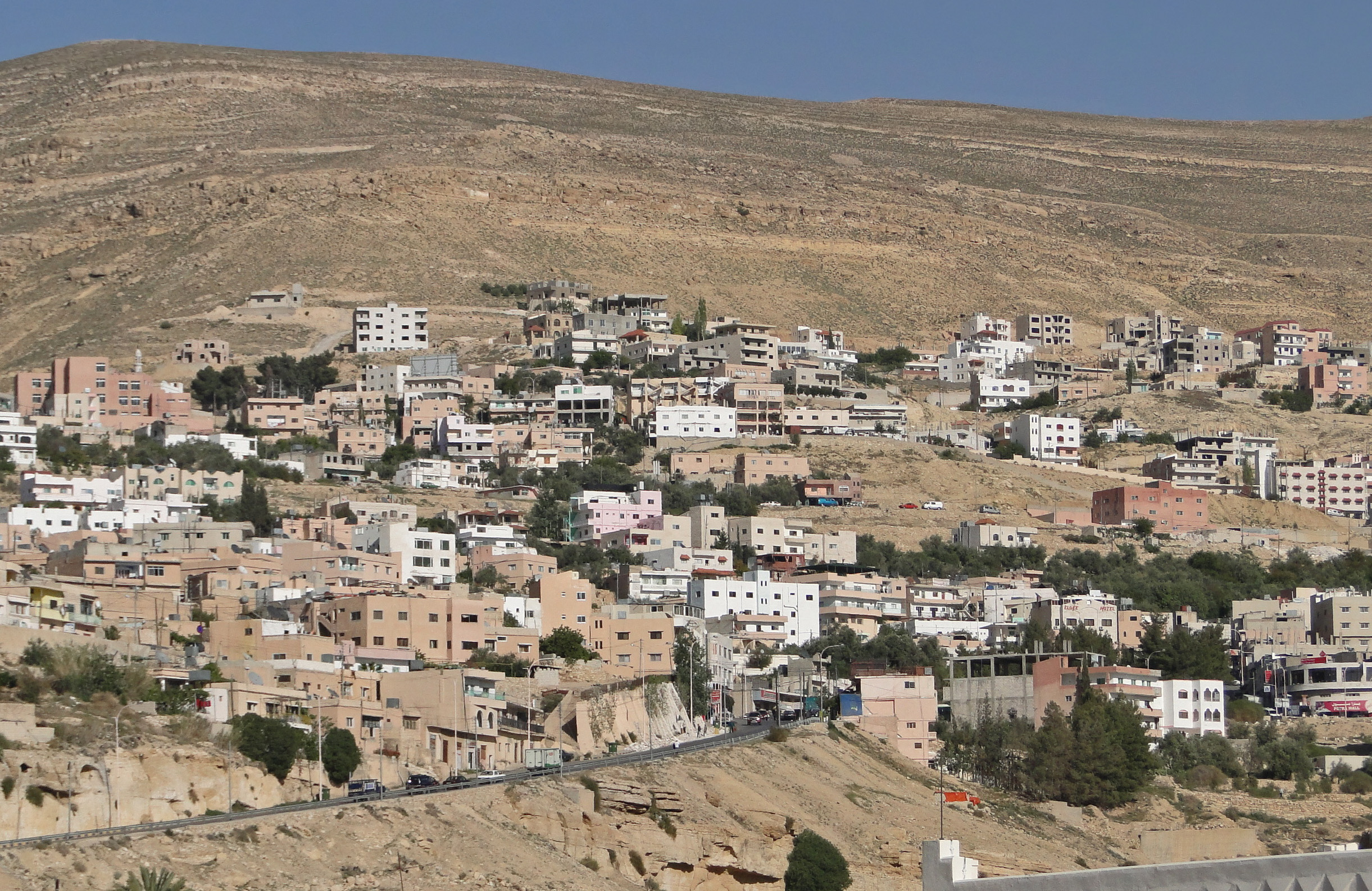 View of Wadi Musa near Petra in Jordan